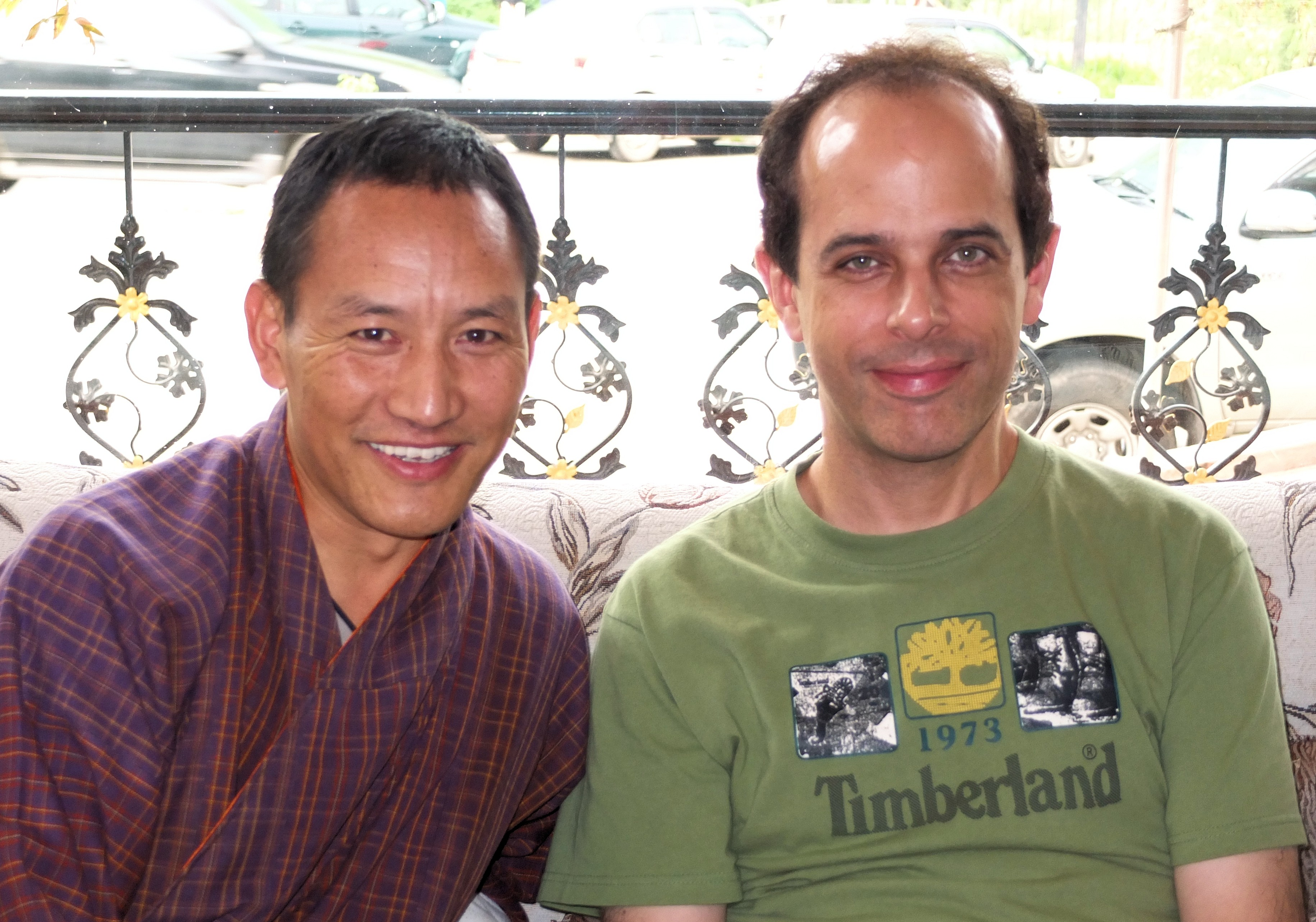 Dr. Karma Phuntsho and Dr. David Germano - Thimphu, Bhutan. 4 August, 2013